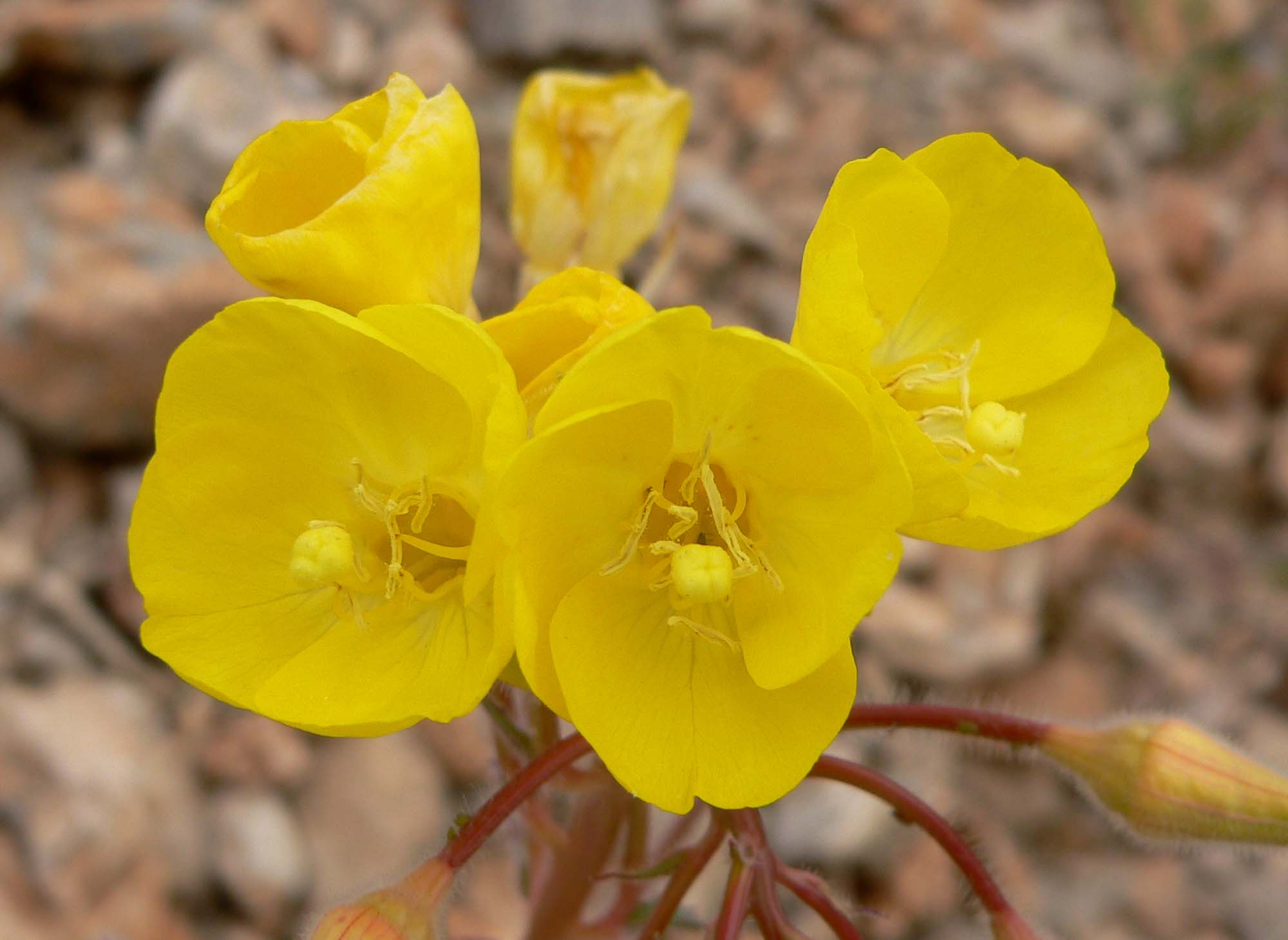 Photo of Camissonia brevipes (Mojave suncup) on the west side of Las Vegas, Nevada, just outside Red Rock Canyon